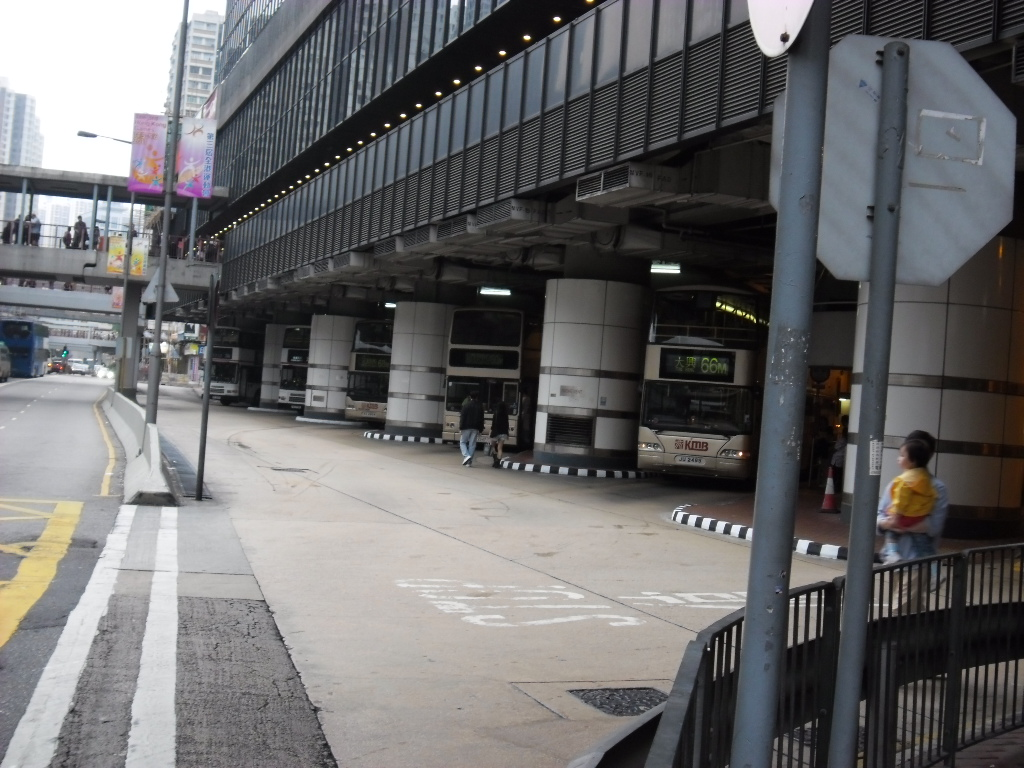 Tsuen Wan Station Public Transport Interchange (2011)中文（香港）: 荃灣站公共交通交匯處(2011年)